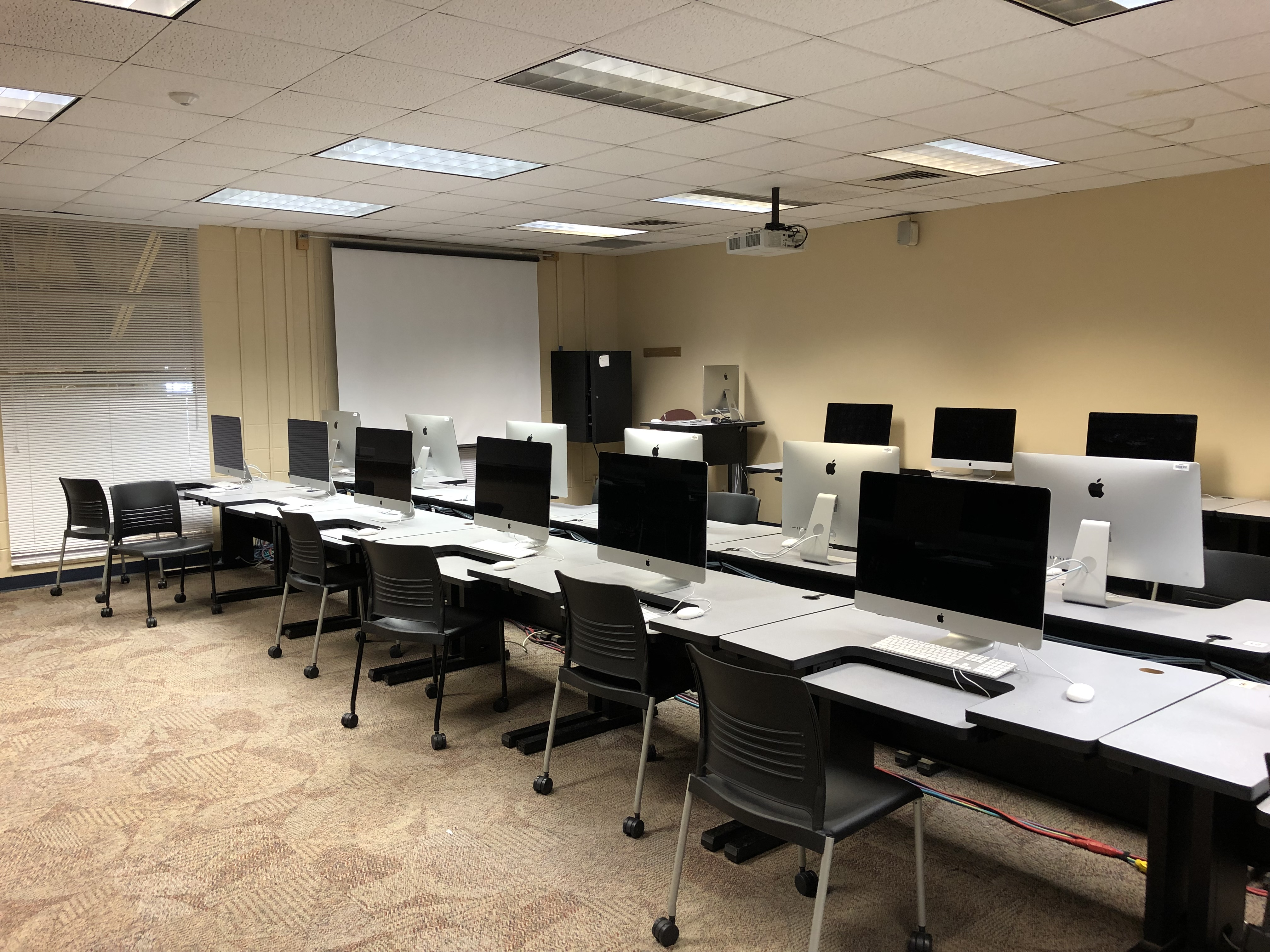 An iMac computer lab at Bowling Green State University. iMacs are late 2015 Retina 5K 27 inch models